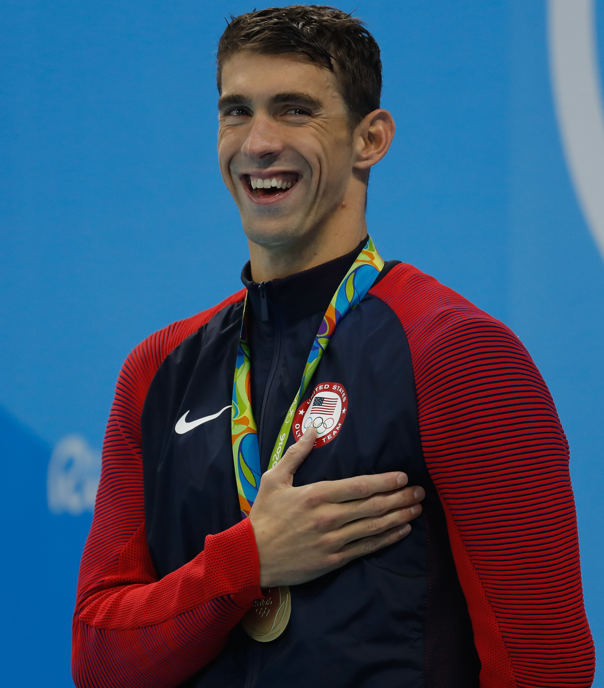 Rio de Janeiro - Michael Phelps, dos Estados Unidos, ganha sua 20ª medalha de ouro olímpica, nos 200m nado borboleta, nos Jogos Rio 2016. (Fernando Frazão/Agência Brasil)